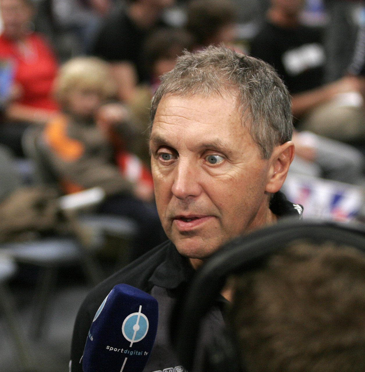 Kent-Harry Andersson, coach of SG Flensburg-Handewitt, in the Kölnarena prior the gane VfL Gummersbach - SG Flensburg-Handewitt